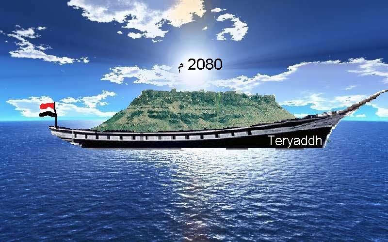 Tariadah Alrriashia